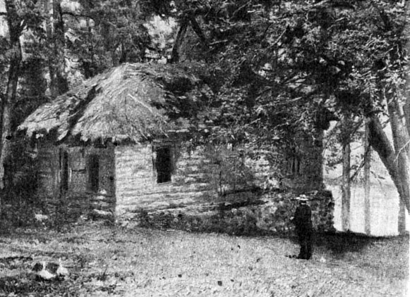 Banya in Trigorsky. The artist V.Maksimov. 1898.